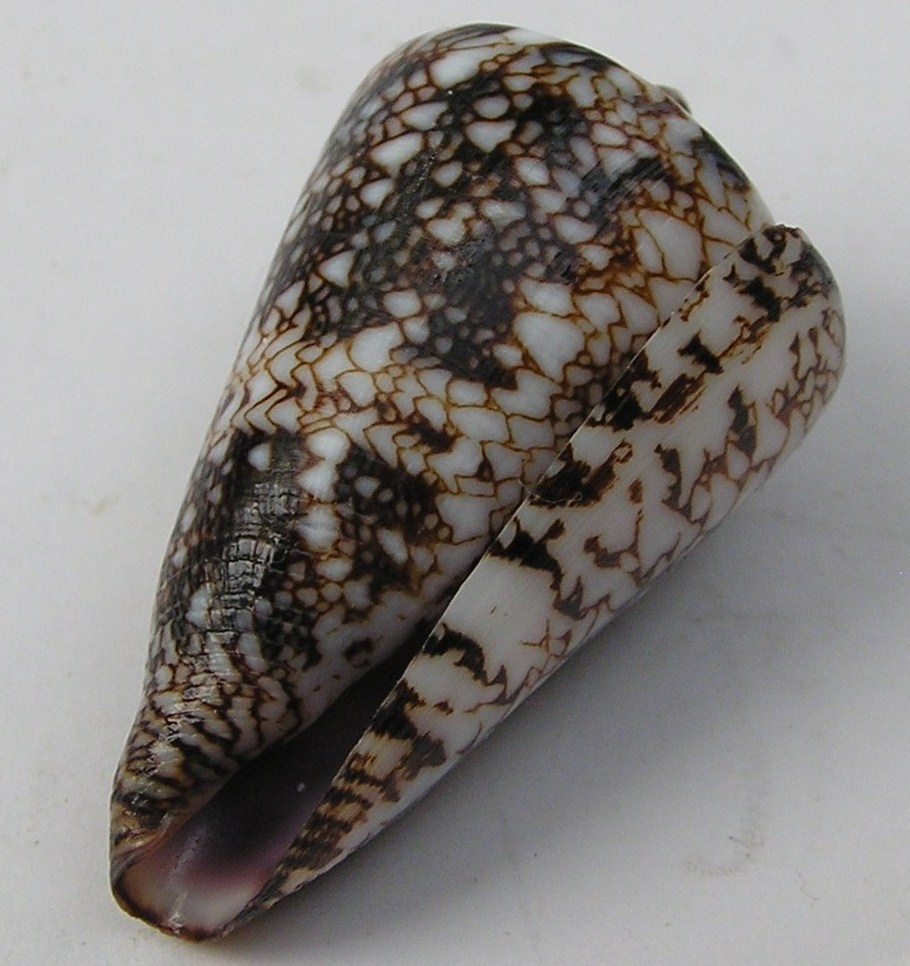 Conus locumtenens Blumenbach, 1791; Djibouti